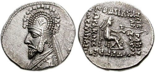 Coin of Orodes I, a Parthian king.